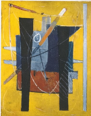 Edmond Boissonnet